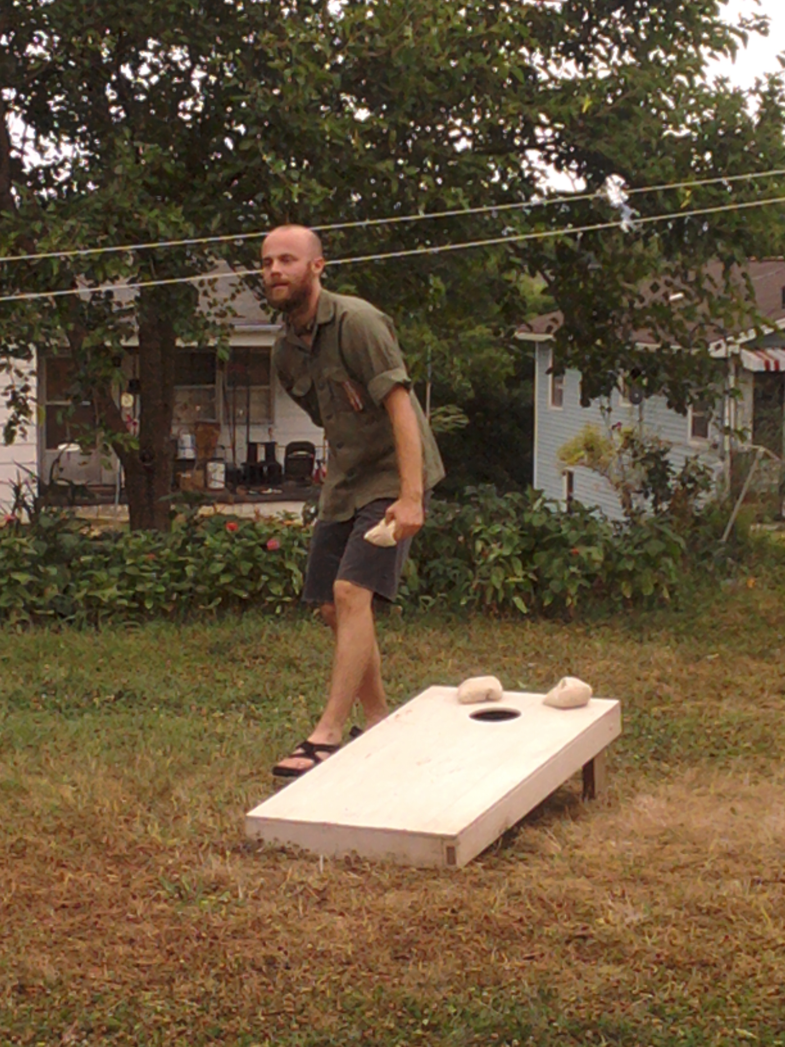 Man tossing beanbag in cornhole game in Harrisonburg, Virginia on July 13, 2012.